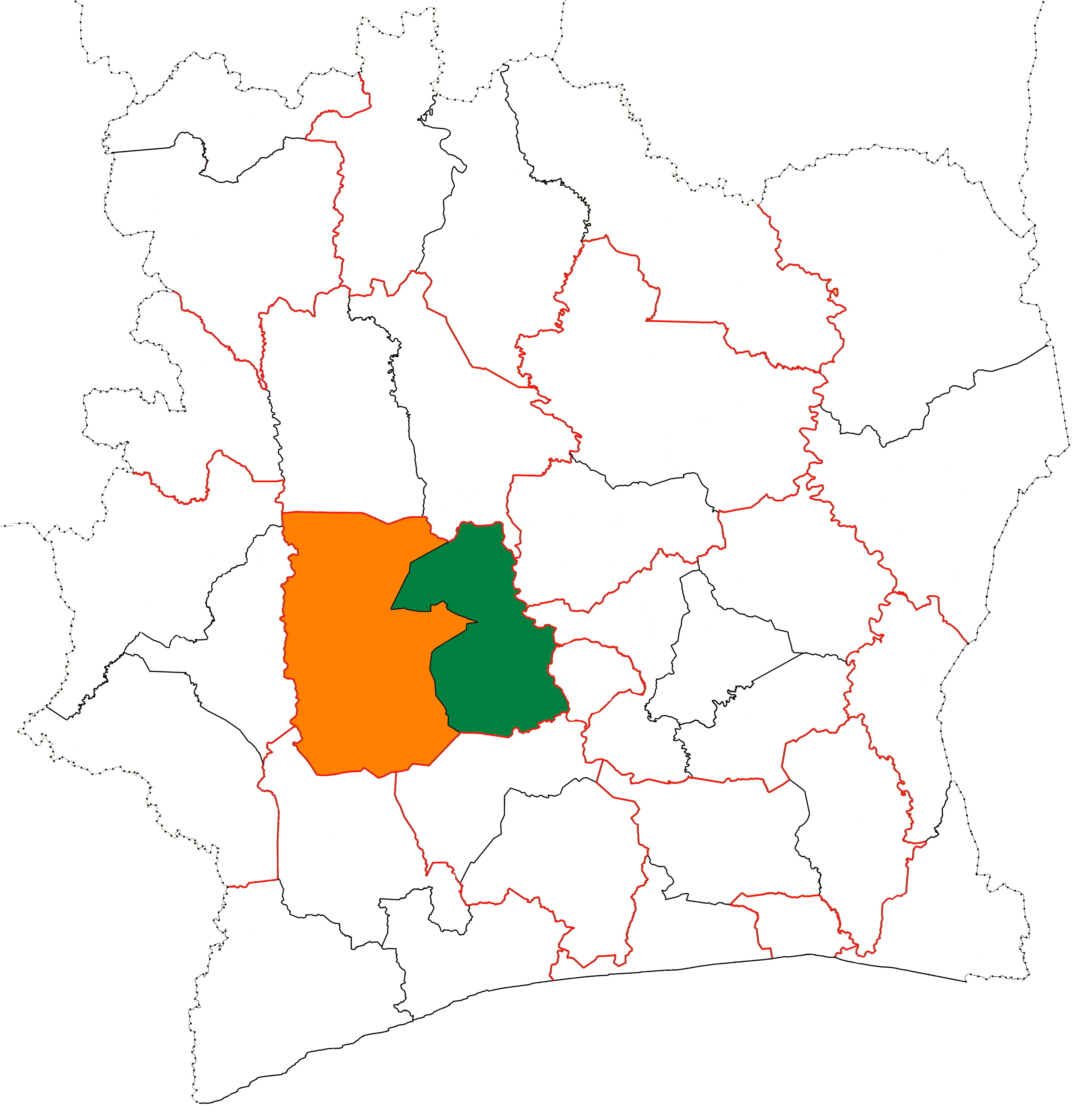 The location of Marahoué region (green) in Côte d'Ivoire. The other shaded areas represent the other parts of Sassandra-Marahoué District.